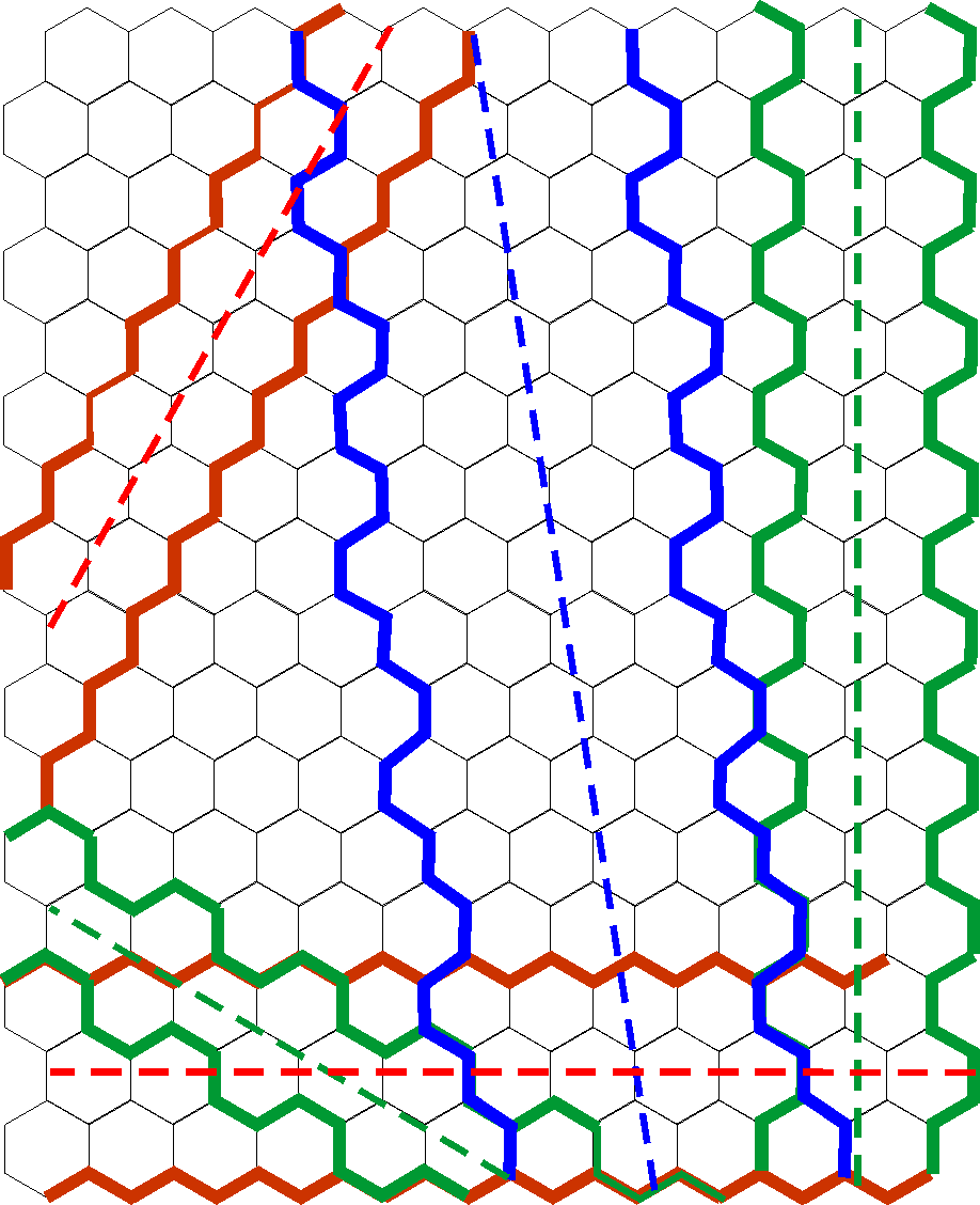 Graphene nanoribbons